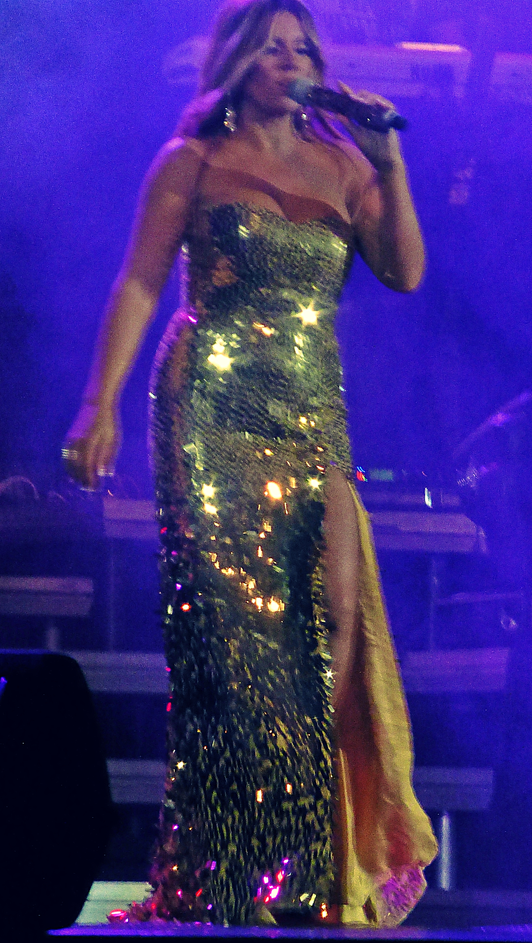 Serbian singer Indira Radić in Sofia.